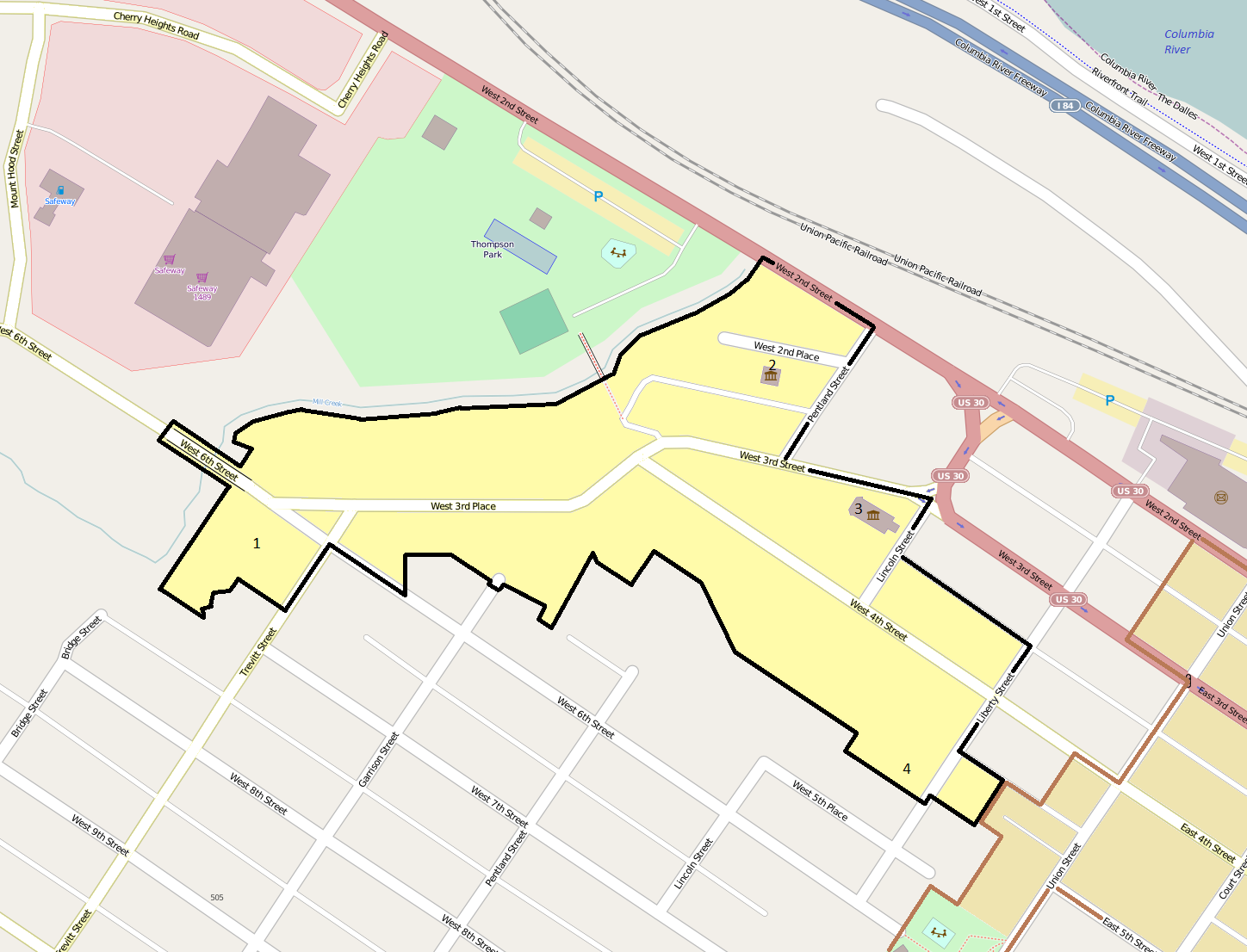 Map showing the boundaries of Trevitt's Addition Historic District in The Dalles, Oregon, United States. The historic district is listed on the US National Register of Historic Places. Boundary data is derived from the historic district's National Register nomination form. Black boundary/yellow area: Trevitt's Addition Historic District boundaries. Brown boundary/tan area: Boundaries of the adjacent The Dalles Commercial Historic District. Numbers: Represent the locations of contributing resources in the historic district that are also listed individually on the National Register: Bennett–Williams House First Wasco County Courthouse St. Peter's Roman Catholic Church (former) Edward French House